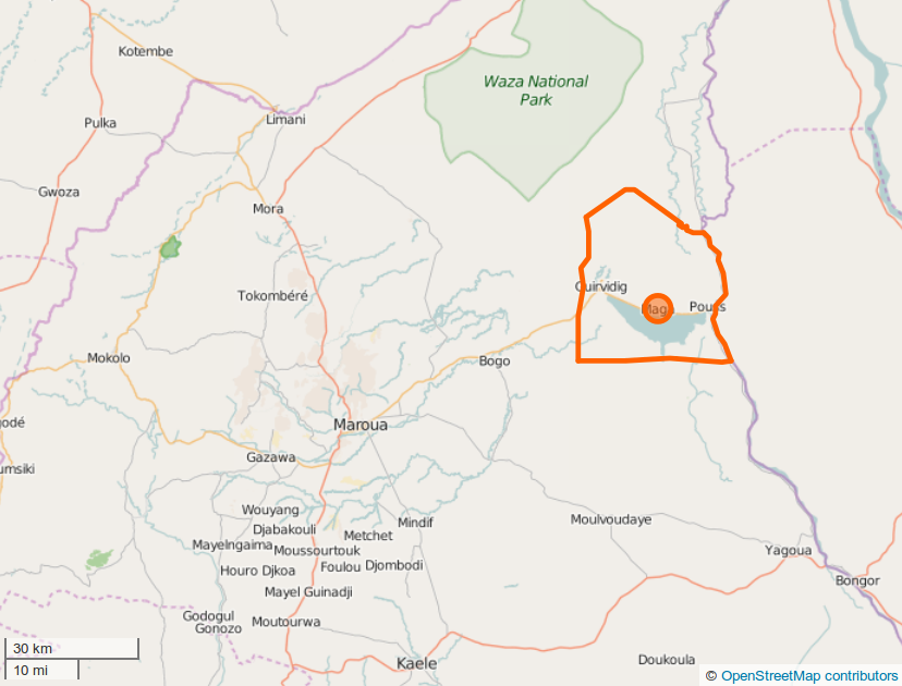 Boundaries of Manga, Cameroon, OSM. This map may be incomplete, and may contain errors. Don't rely solely on it for navigation.